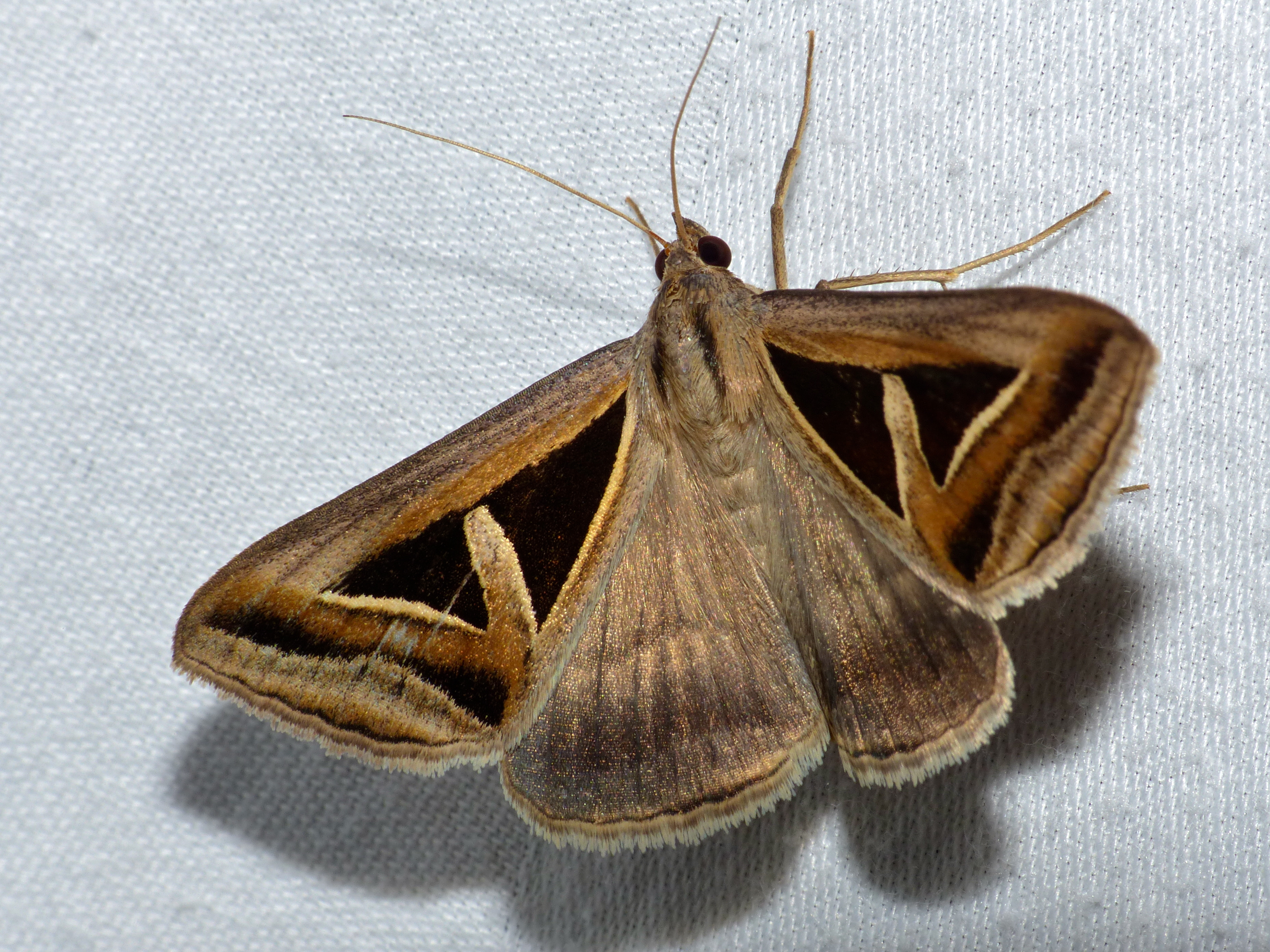 Permai Rainforest Resort, Santubong Peninsula North of Kuching, Sarawak, MALAYSIA